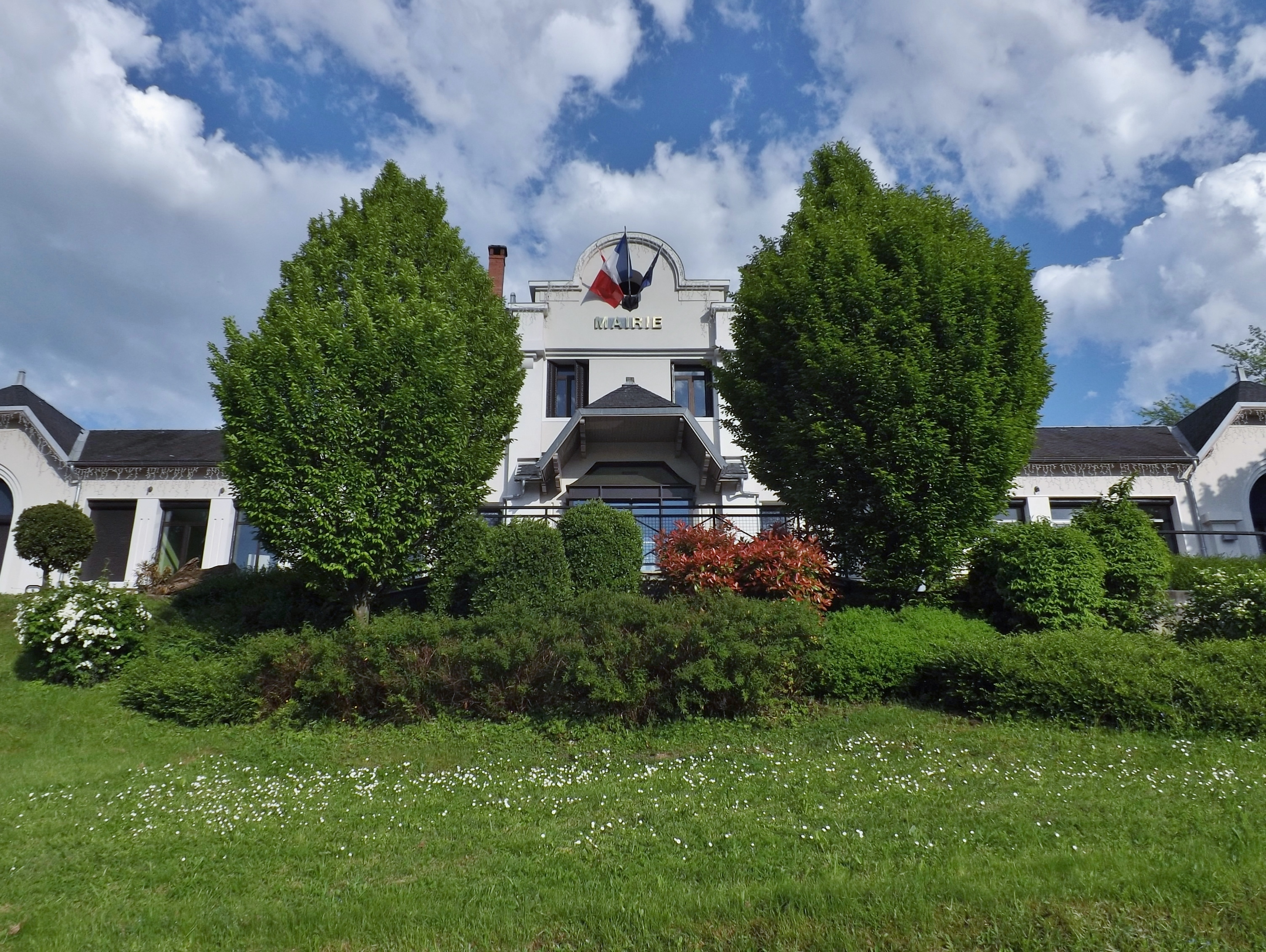 Sight of the French commune of Jacob-Bellecombette town hall, near Chambéry in Savoie.